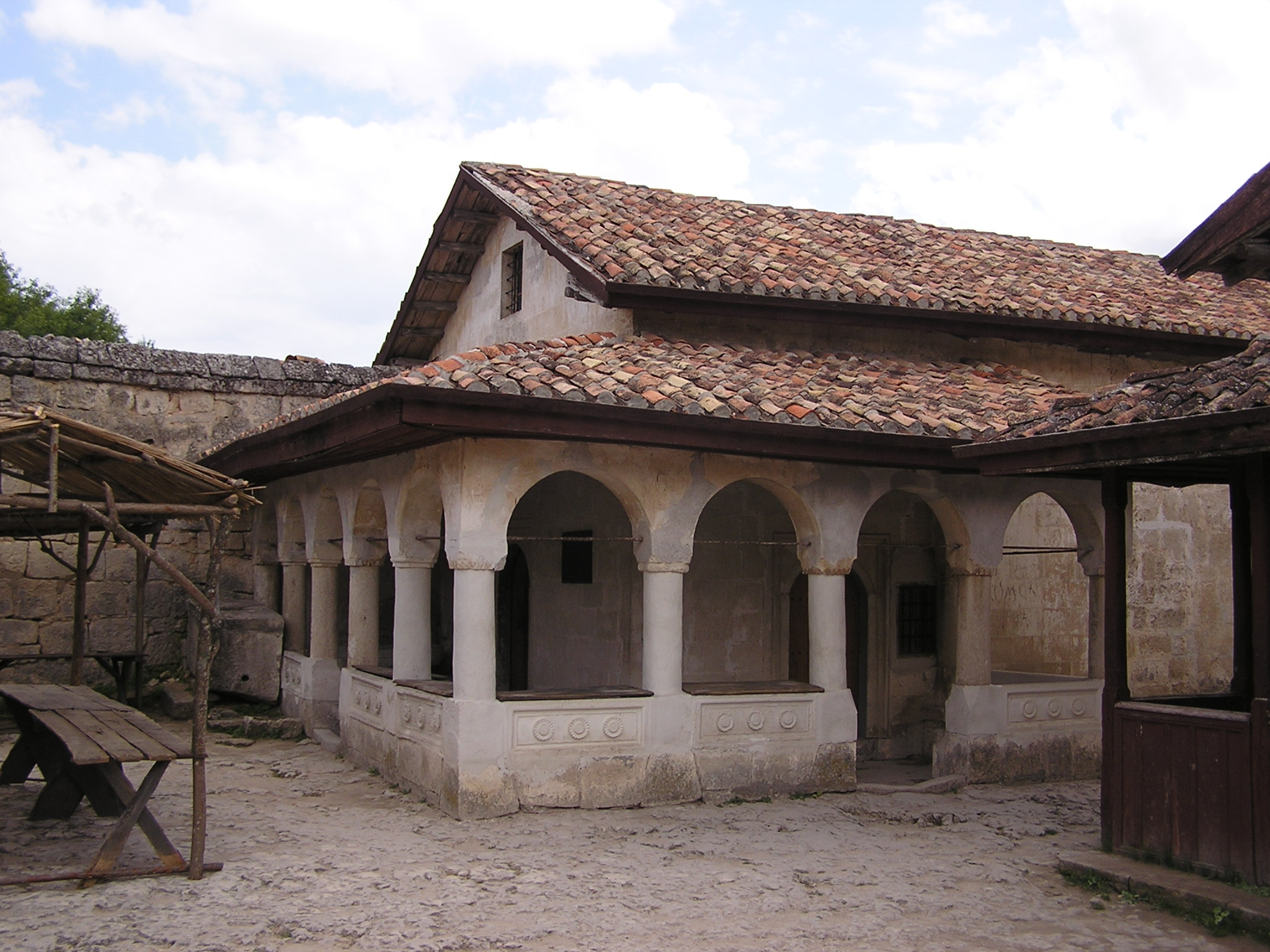 Çufut Qale kenassa.